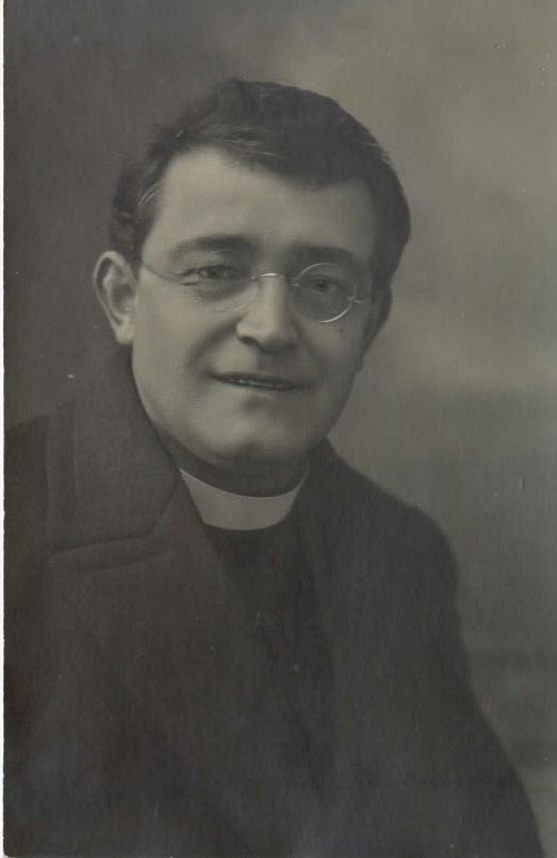 Peter Butkovič (1888-1953), Slovene priest and writer